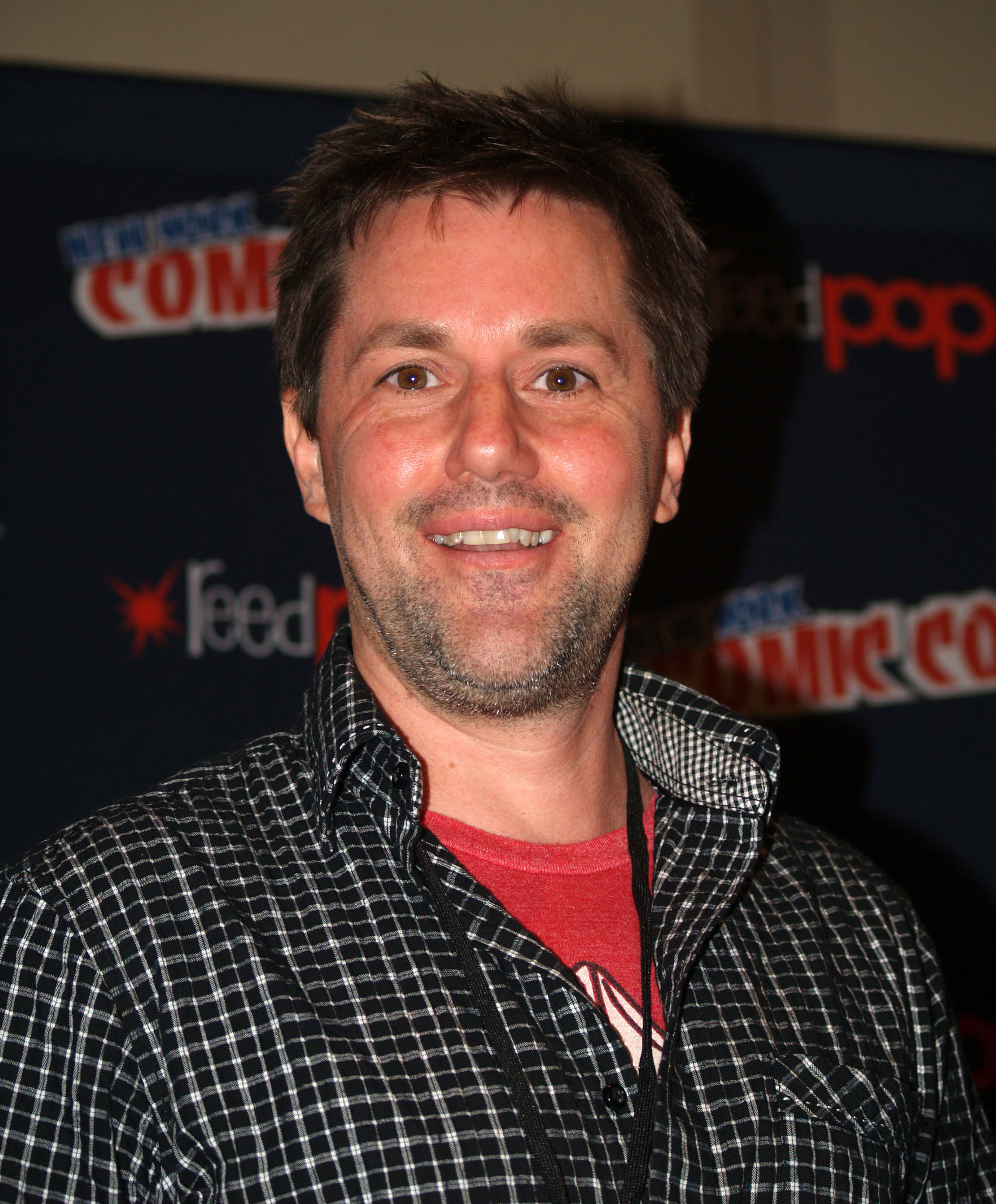 IDW Publishing Chief Creative Officer and Editor-in-Chief Chris Ryall, at the Saturday IDW Publishing panel, at the Jacob K. Javits Convention Center in Manhattan, on Saturday October 12, 2013, Day 3 of the 2013 New York Comic Con. This photo was created by Luigi Novi. It is not in the public domain, and use of this file outside of the licensing terms is a copyright violation.